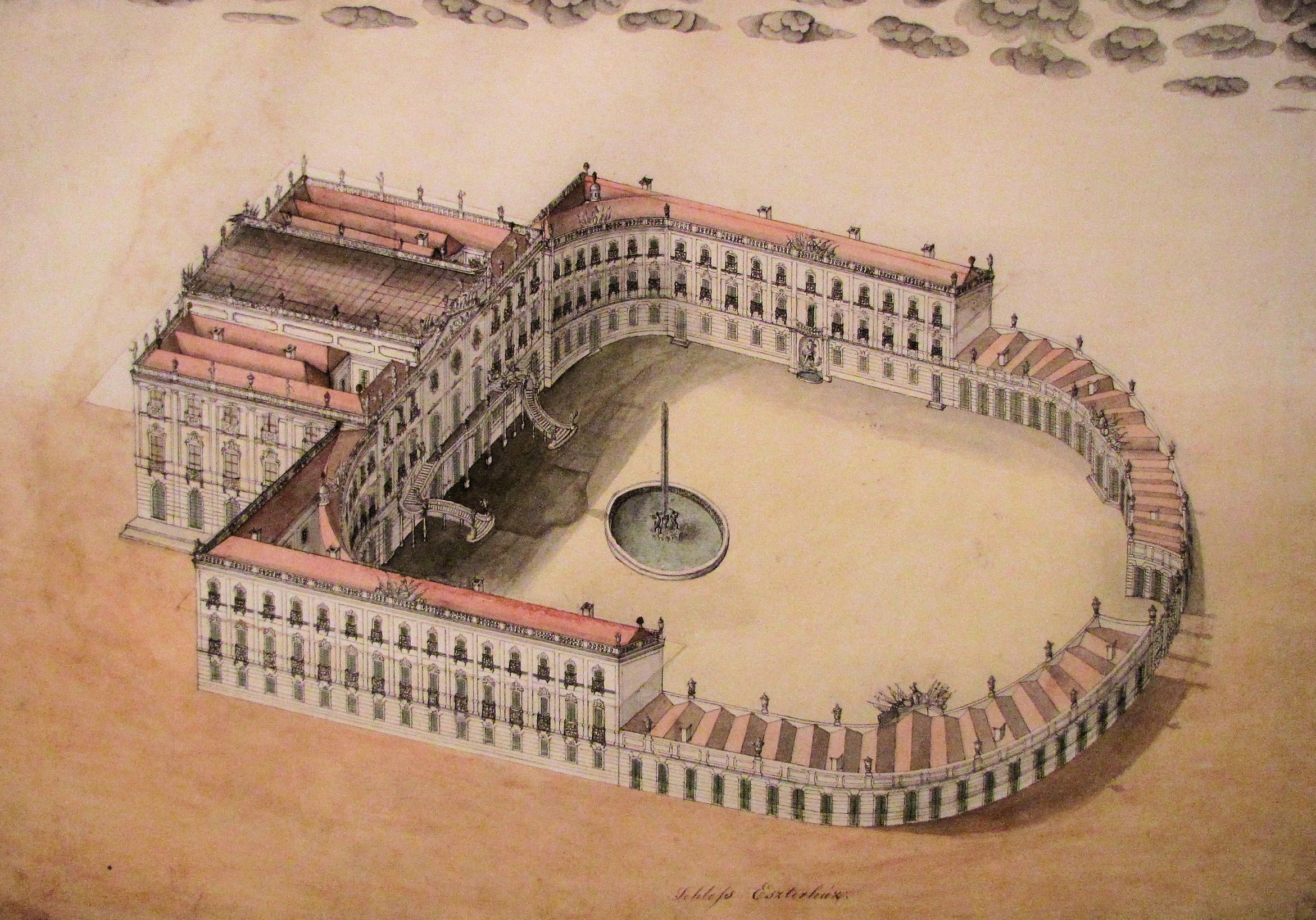 Original plans of the Esterházy Castle in Fertőd, Hungary, now kept in the Esterházy Family Archives in Eisenstadt, Austria. 1774, probably by Nicolaus Jacoby.